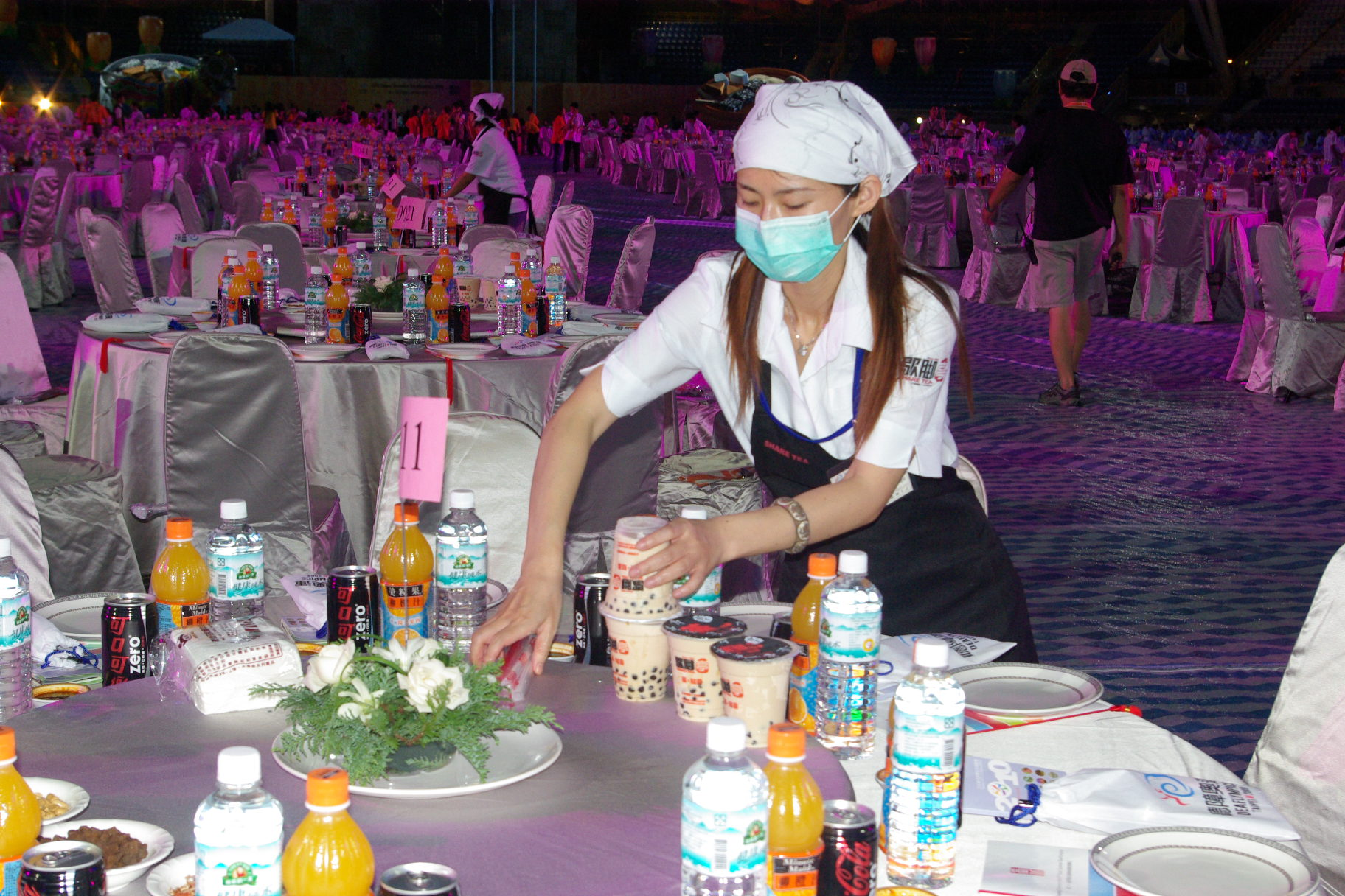 The first Pearl Milk Tea which was chosen as the best by the media for 6 consecutive years.The only pearl milk tea at the Taipei Deaflmpics, which was the first time it was held in Taiwan, it is not just Taiwan’s glory, it is also Share Tea’s glory.